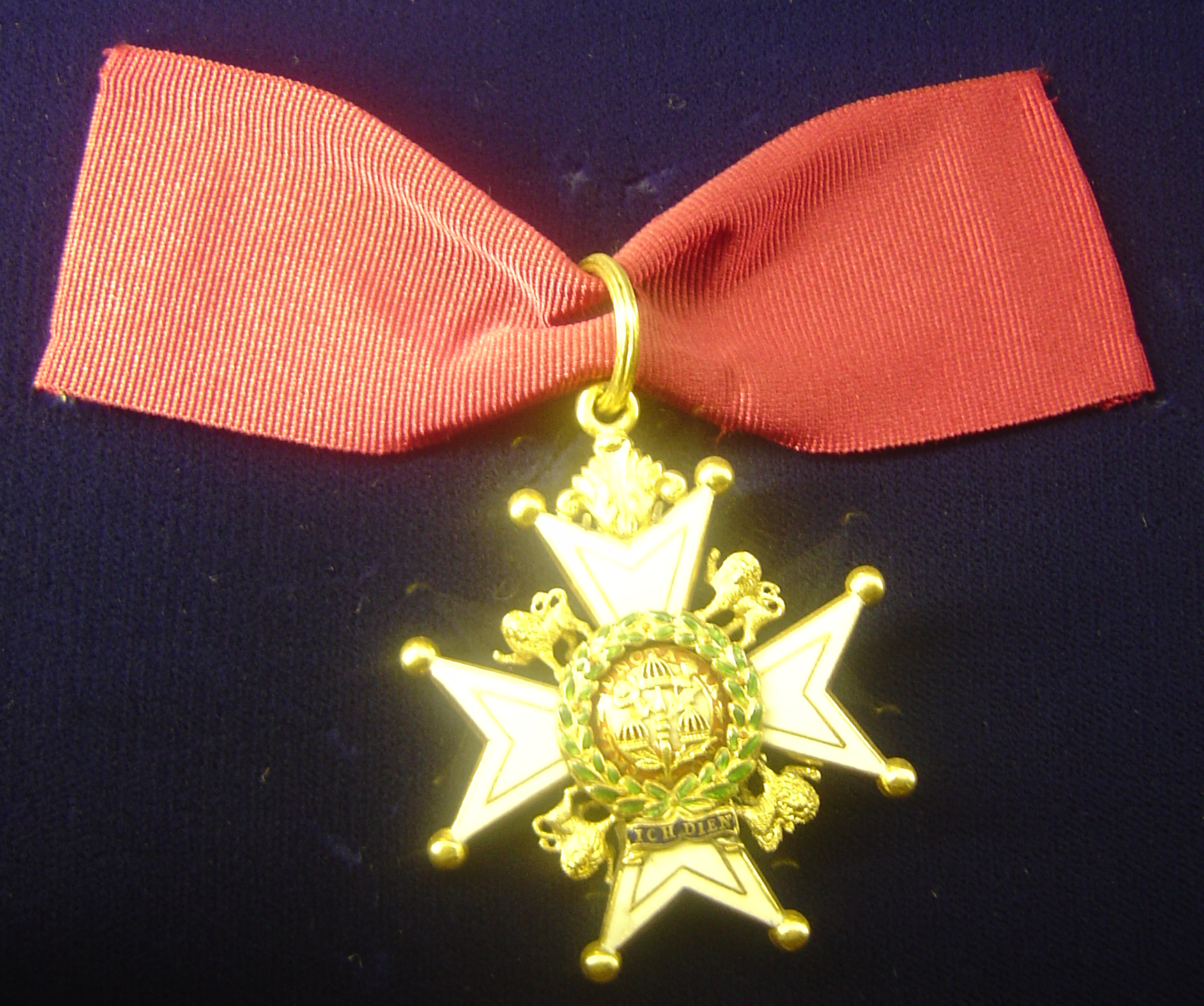 Cross of the Order of the Bath in a regimental museum in Edinburgh Castle